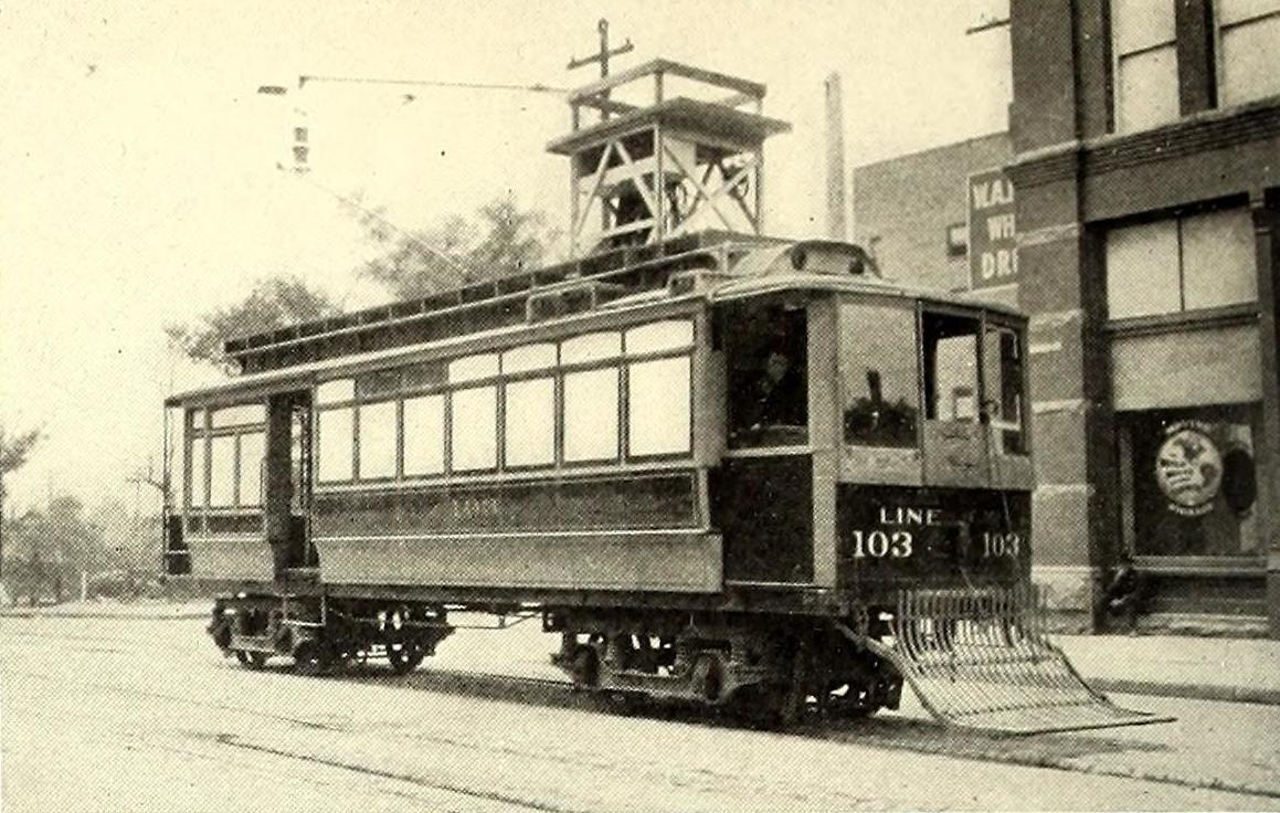 Title: Electric railway journal Year: 1908 (1900s) Authors: Subjects: Electric railroads Publisher: (New York) McGraw Hill Pub. Co Text Appearing Before Image: Denver City Tramway—Broadway Stock Room Denver City Tramway—Blacksmith Shop Plate VI Text Appearing After Image: Denver City Tramway—Lightning Map Denver City Tramway—Boiler Plant Plate VII